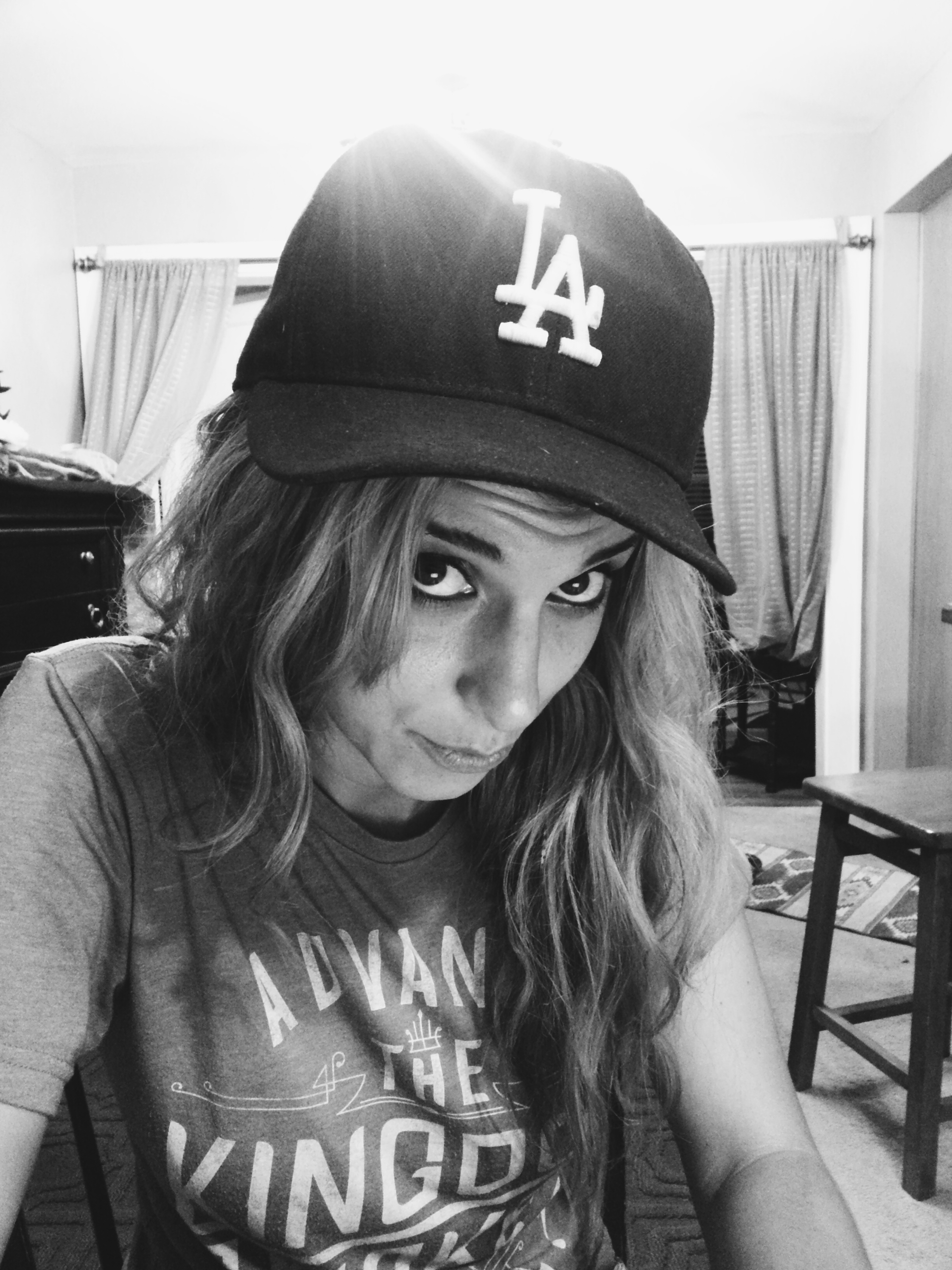 Casual Photo of musician Lara Landon.